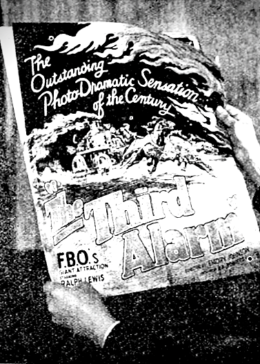 Cover of the striking campaign book compiled by Nat G. Rothstein on F.B.O. the new special, "The Third Alarm," which is playing at the Astor Theatre, New York. Forty practical exploitation ideas were described and illustrated in the book which is proving of inestimable value to exhibitors